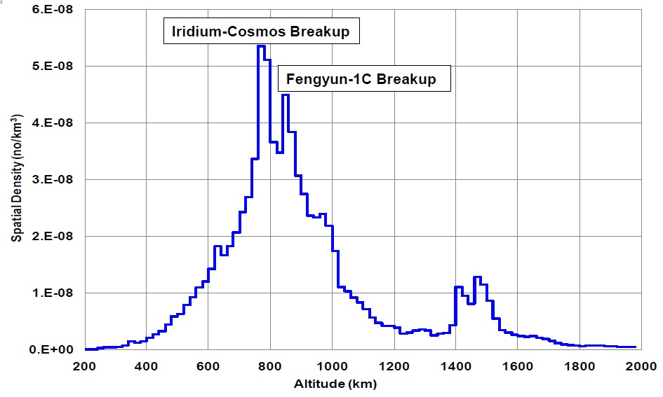 NASA 2011 Report to the United Nations Office for Outer Space Affairs, Scientific and Technical Subcommittee, Committee on the Peaceful Uses of Outer Space (UNOOSA), Fair Use: Released and published for the public by the United Nations